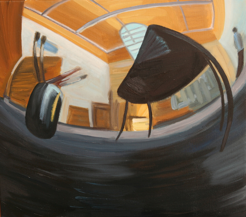 Small studio. Oil on canvas painting by Lilla Bodor Hungarian artist.